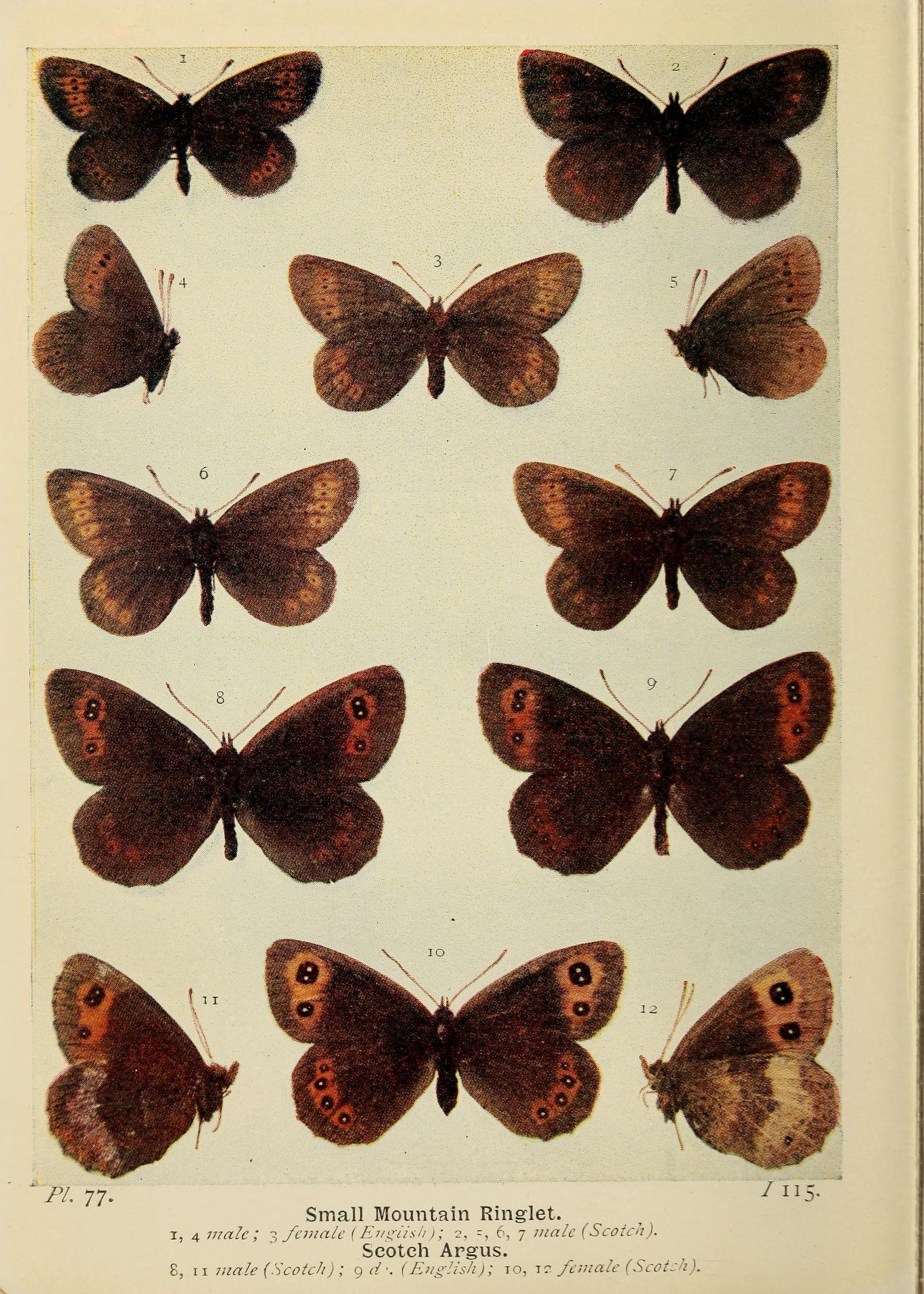 South1906Plate77